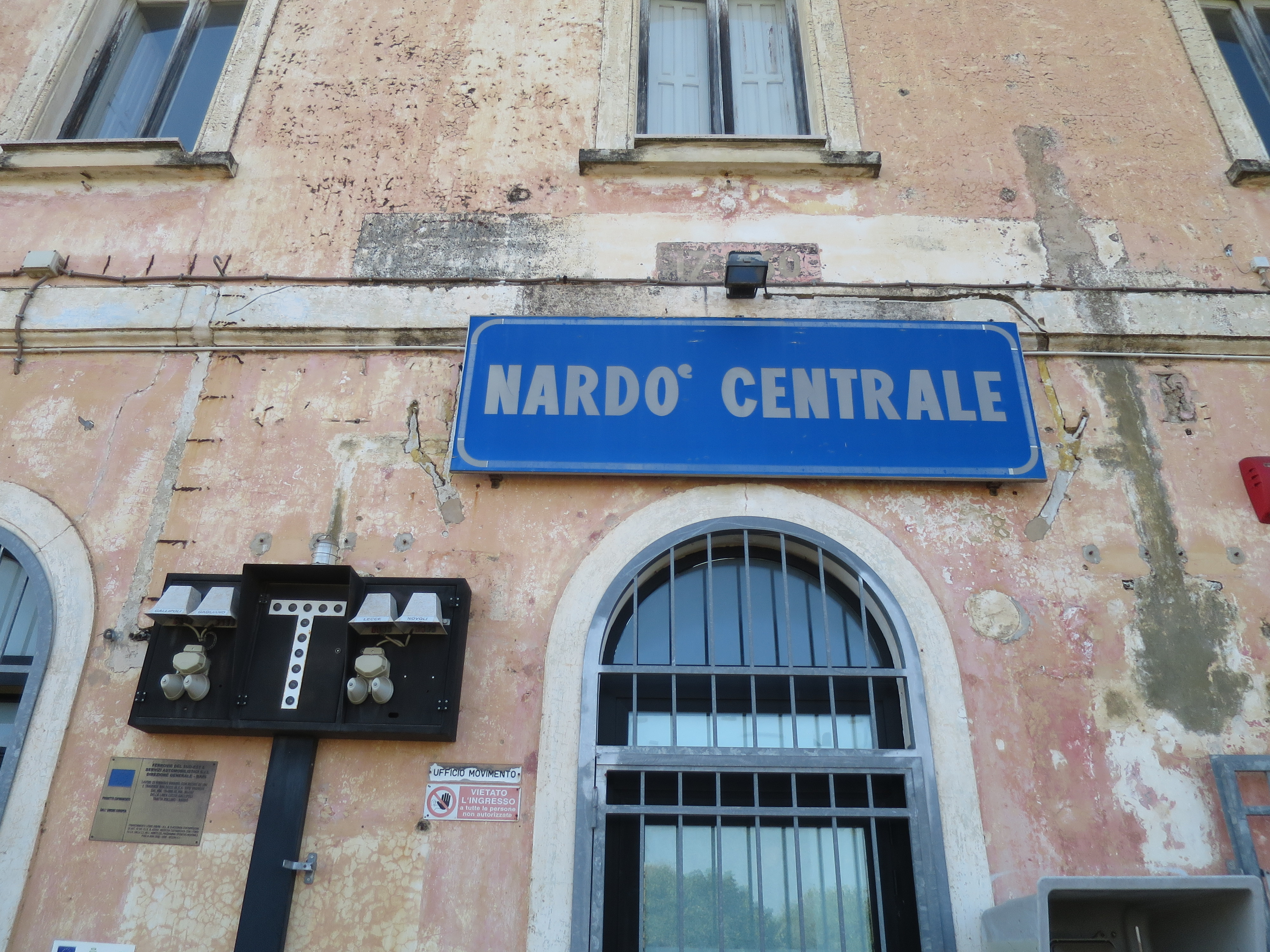 Rly Station Nardò Centrale